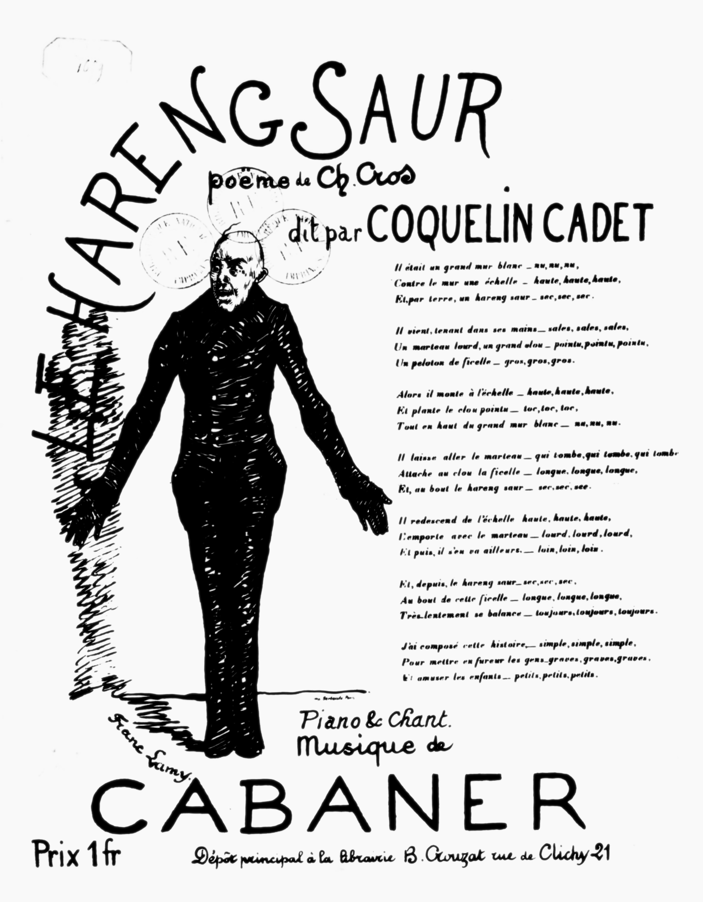 Flier advertising the libretto of Coquelin Cadet's recital of "Le Hareng saur" ("The Salted Herring") by French poet Charles Cros (1842-1888) accompanied on the piano by Ernest Cabaner (1833-1881).